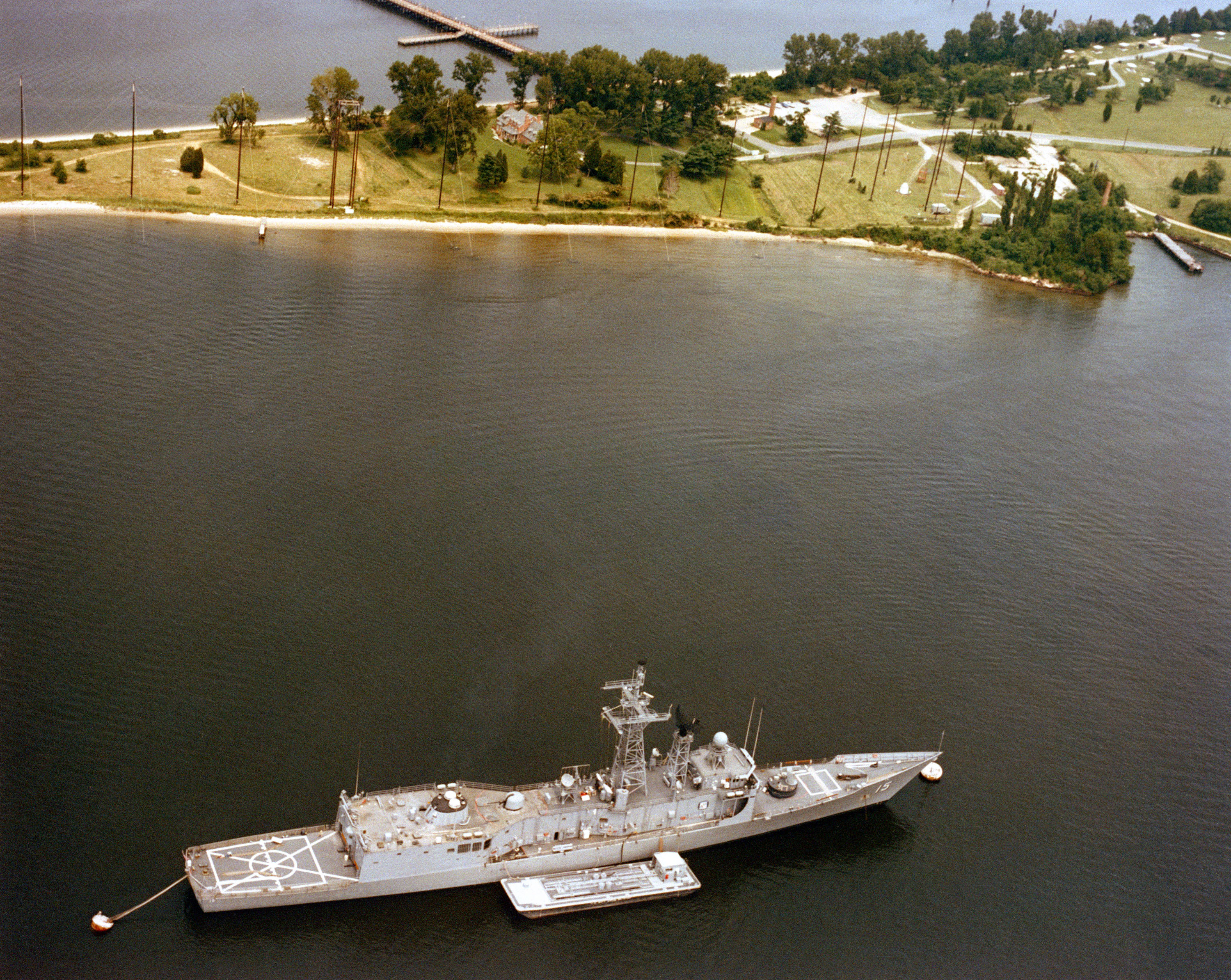 An elevated starboard quarter view of the guided missile frigate USS ESTOCIN (FFG 15) moored near the Electro Magnetic Pulse Radiation Environmental Simulator for Ships I (EMPRESS I) facility. (off Point Patience, Maryland)